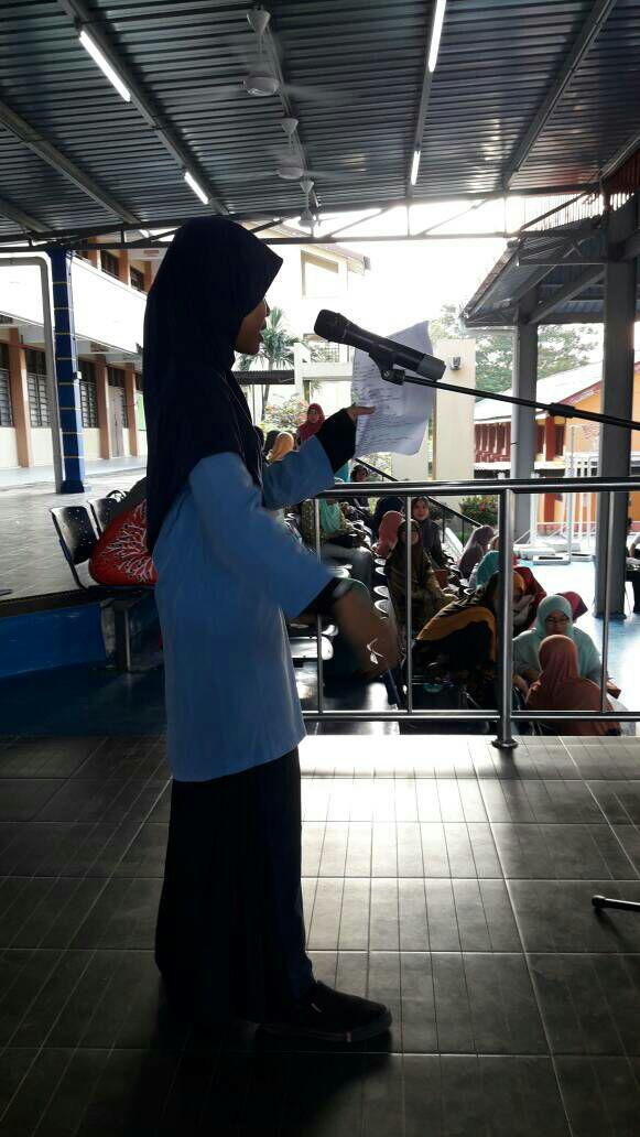 Murid Tahun 5